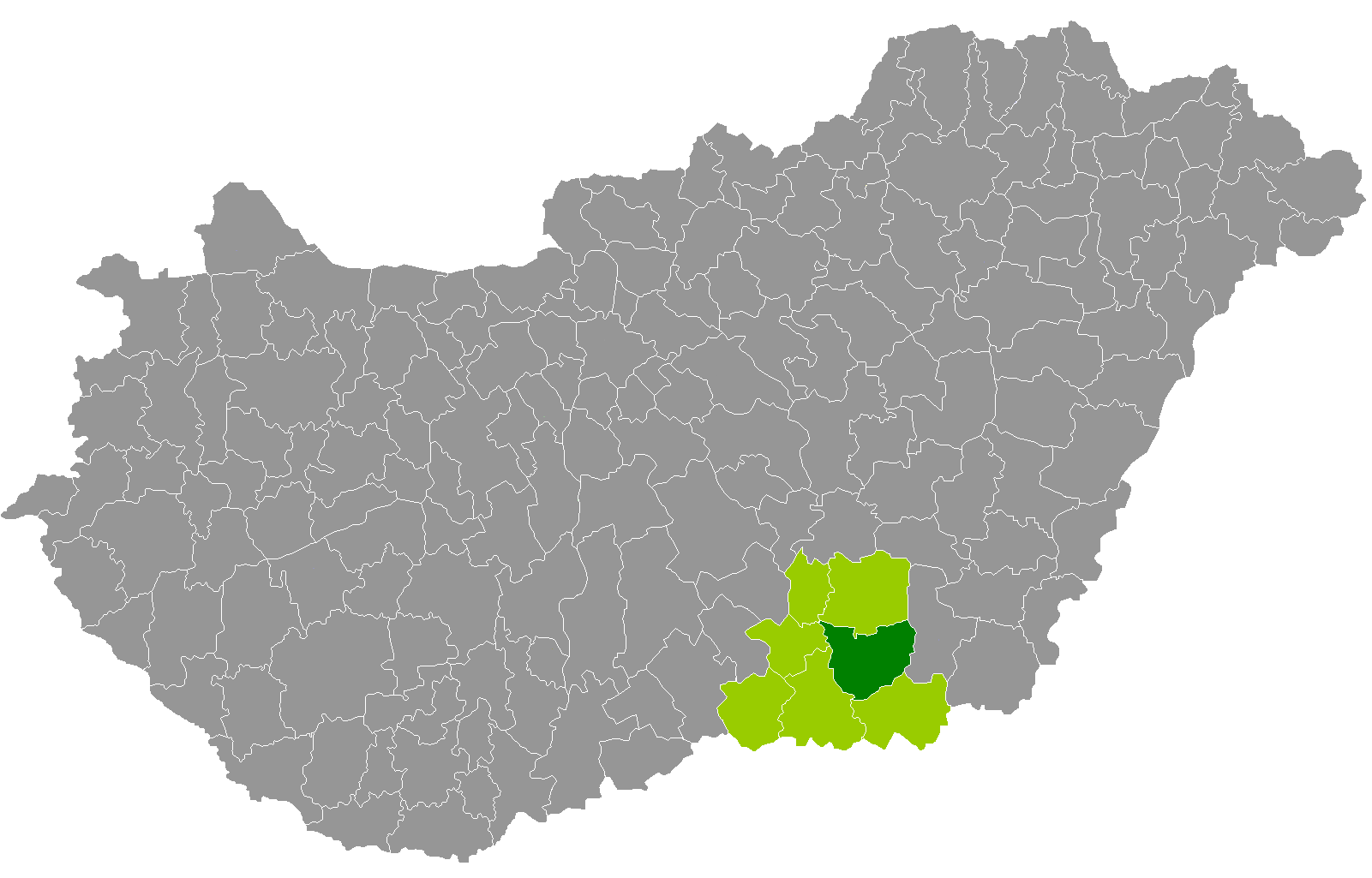 Location of Hódmezővásárhely District, Csongrád, Hungary